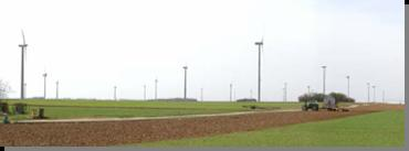 Wind farm at Cormainville, France with 30 Vestas V80-2MW wind turbines, built by Volkswind GmbH in 2006.